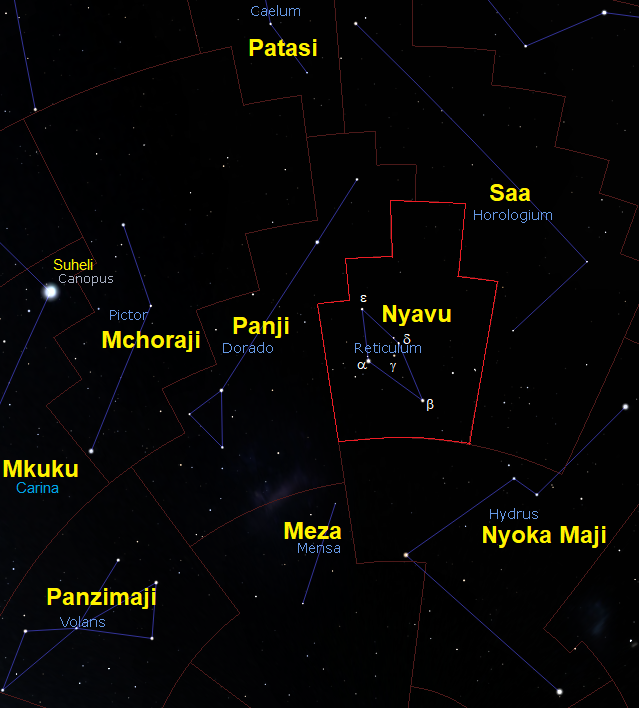 Constellation Reticulum as seen from Tanzania, Swahili labelled Kiswahili: Kundinyota Nyavu (Reticulum) jinsi inavyoonekana kutoka Tanzania, majina kwa Kiswahili